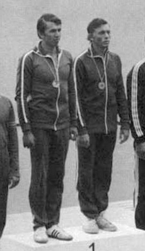 C2-1000 m canoe racing podium at the 1976 Olympics, Left-right: Serhiy Petrenko, Aleksandr Vinogradov